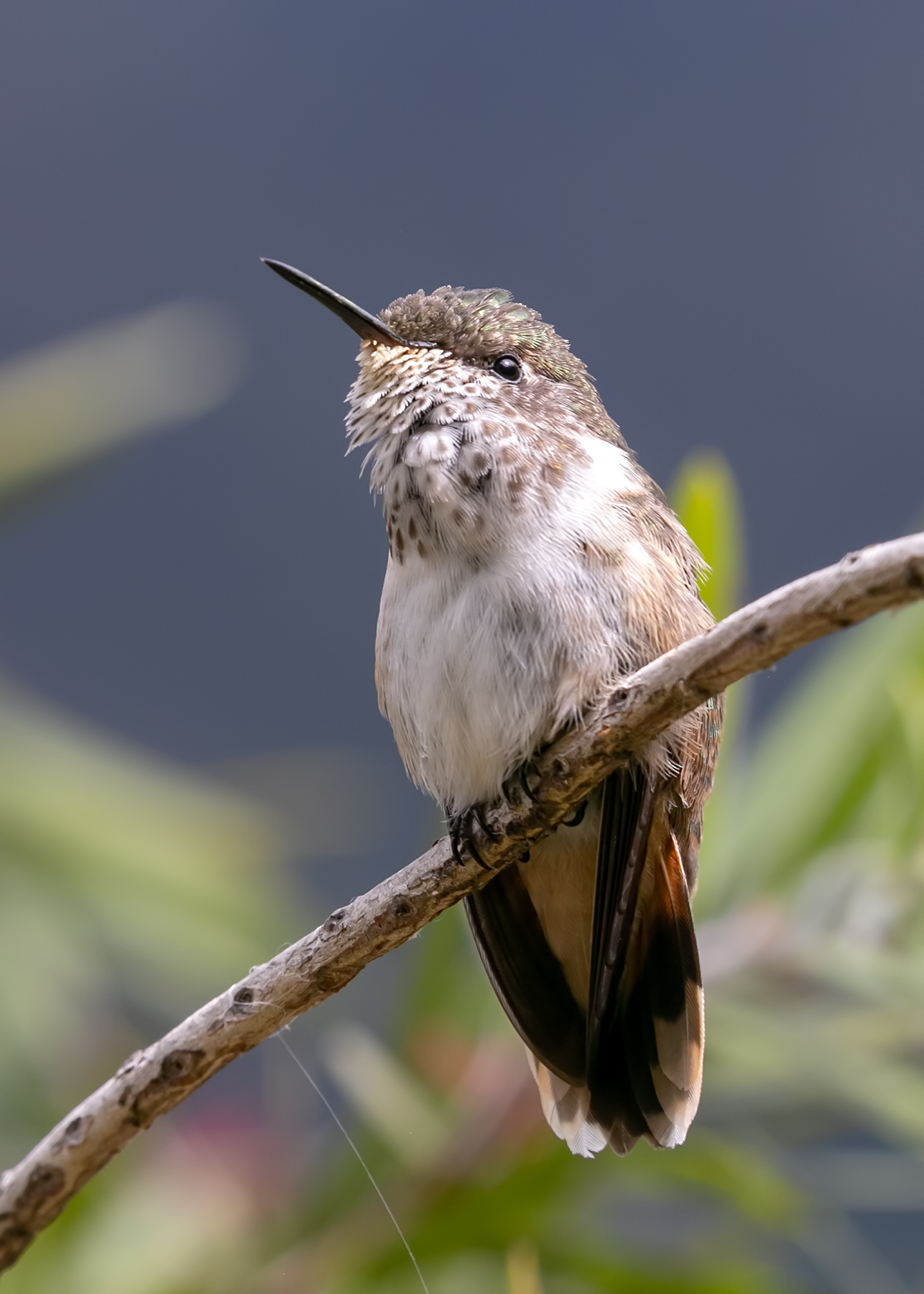 Selasphorus scintilla - Central Highlands, Costa Rica, 31/01/2020